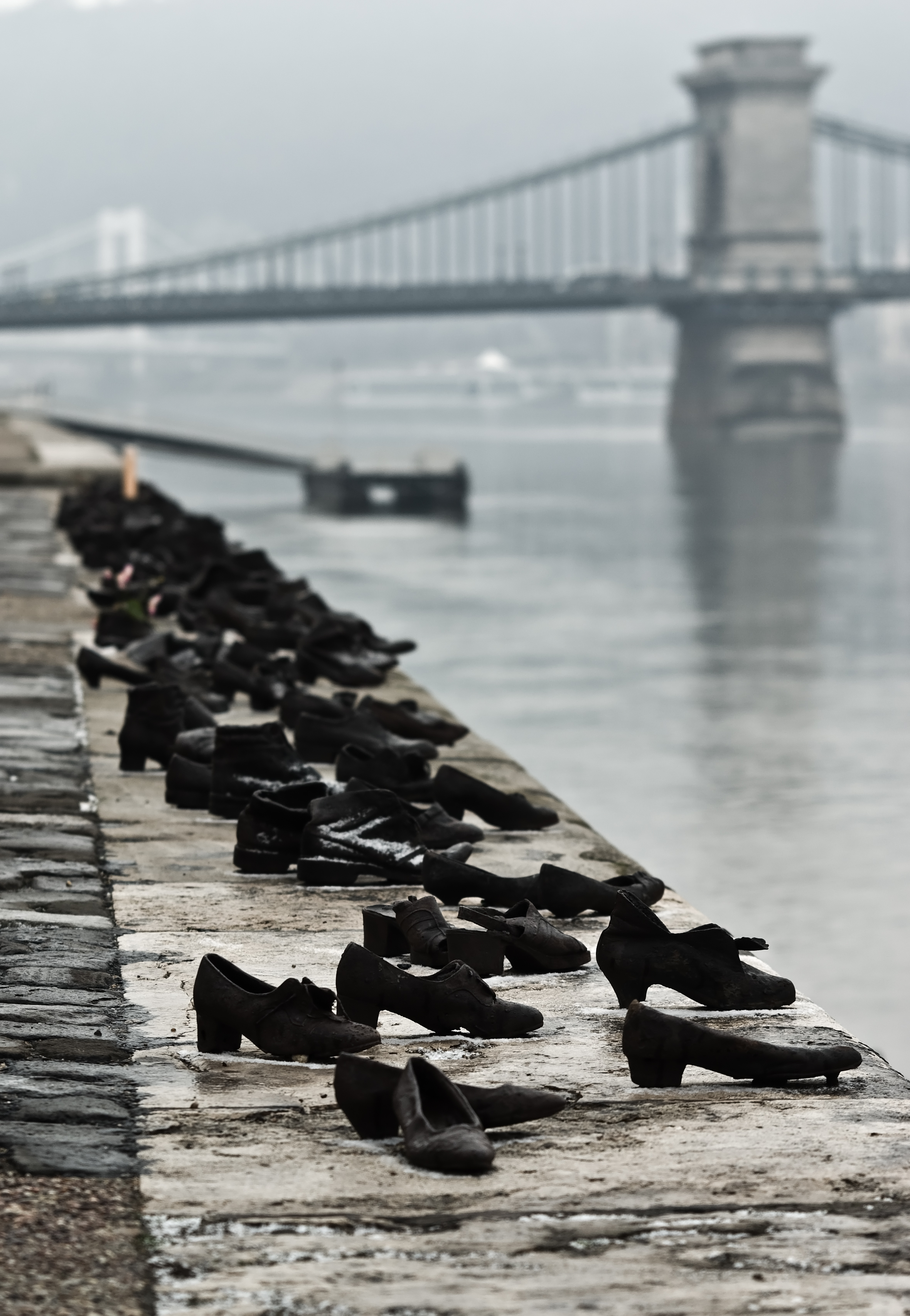 Shoes on the Danube Promenade - Holocaust Memorial